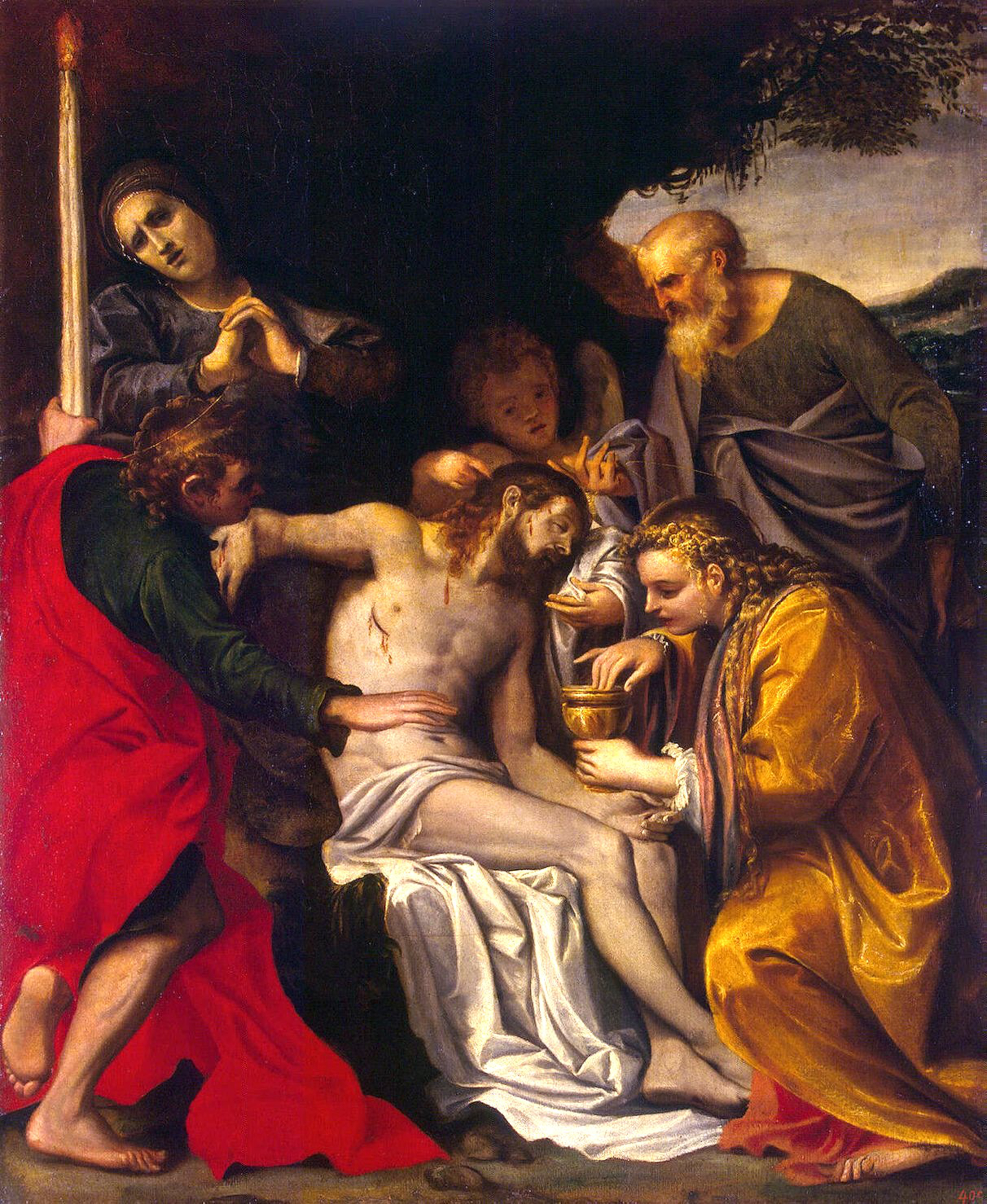 A depiction of the Virgin Mary cradling the dead body of Jesus